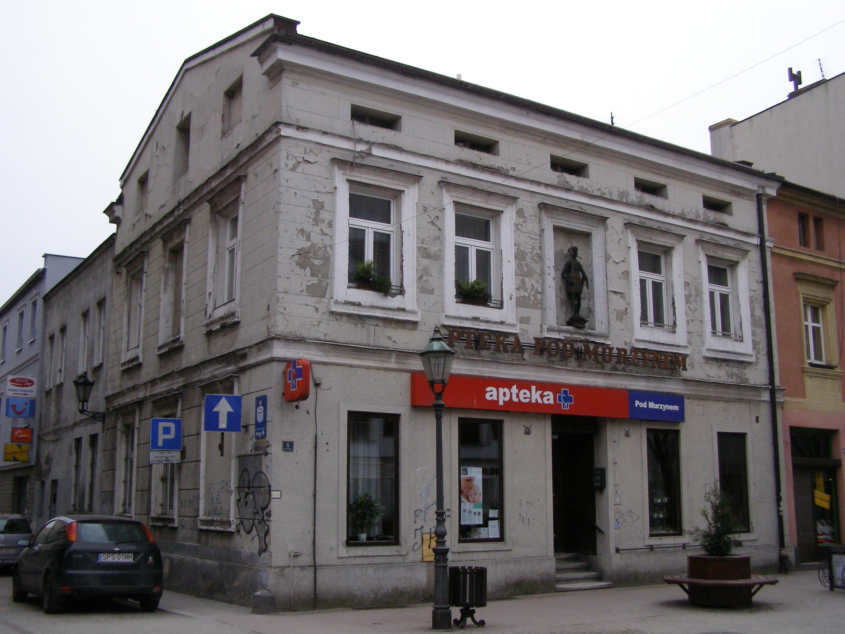 Pszczyna - Pod Murzynem pharmacy